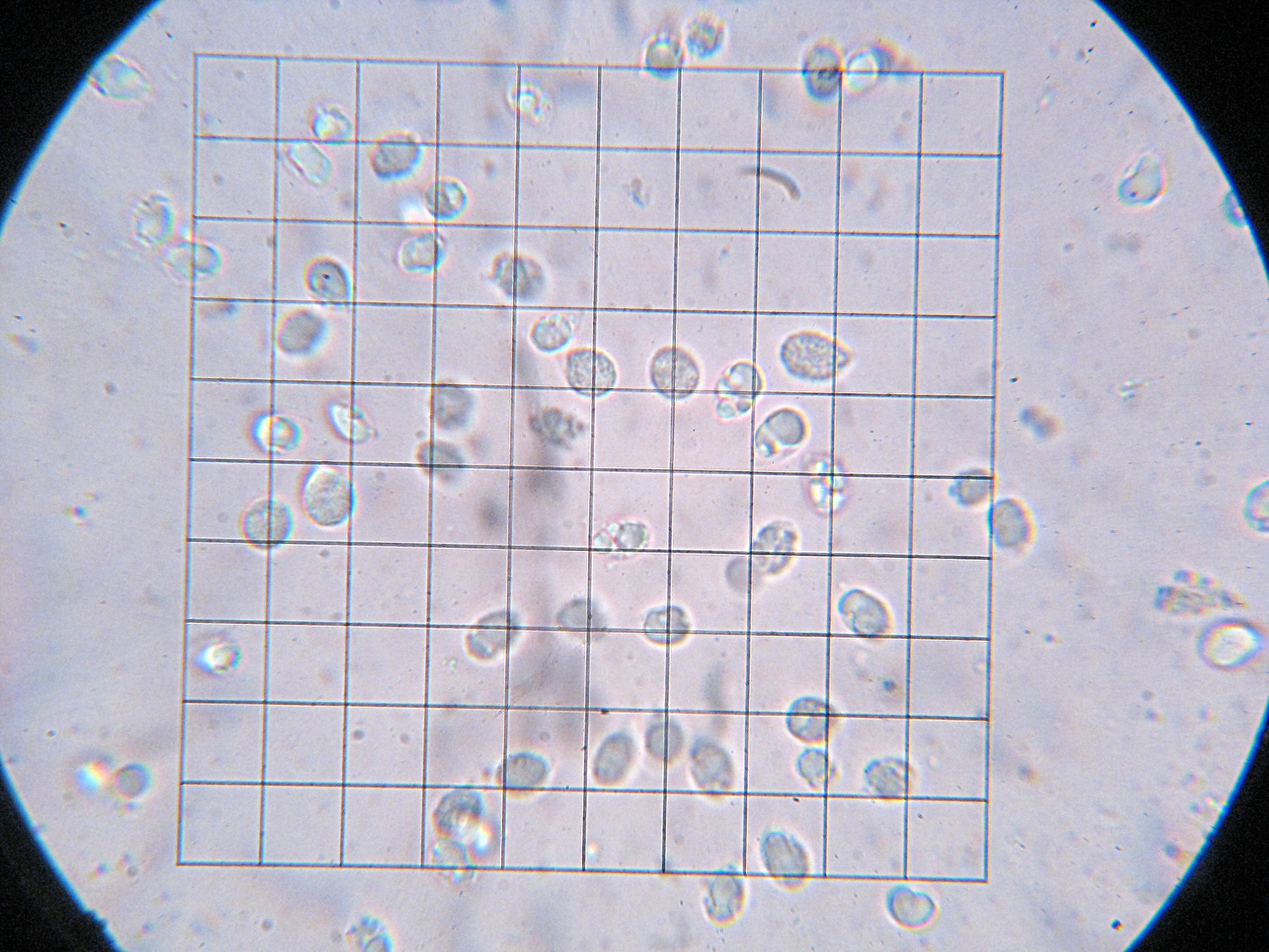 Hygrocybe calyptriformis (Berk.) Fayod Location: Teague Hill Open Space Preserve, San Mateo Co., California, USA Image Notes: spores 1000x, 10.92 micrometer divisions For more information about this, see the observation page at Mushroom Observer.